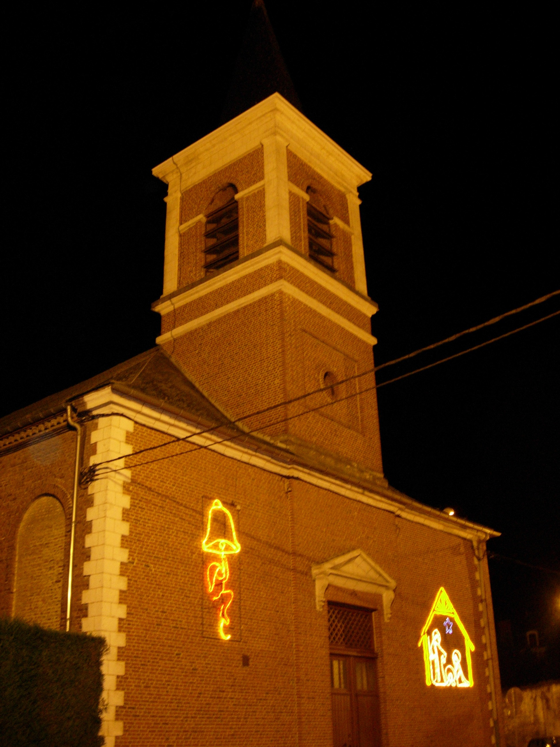 Saint Barthélémy Church, during Christmas 2006